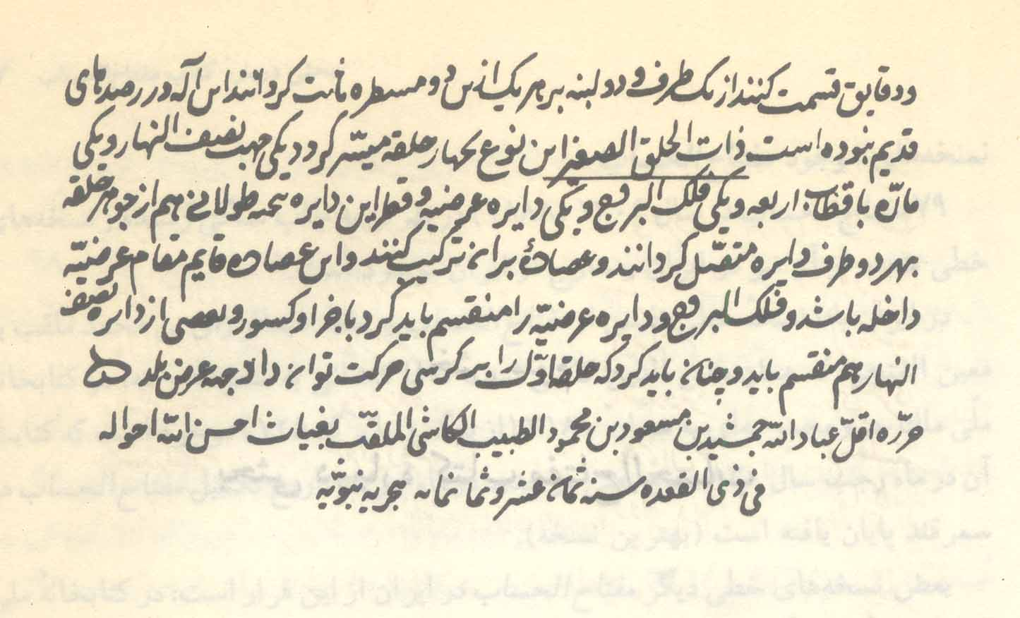 this is considered in public domain now because its copyright condition has been already expired in Iran. according to the "National law in support of authors, composers and artists" ratified in 01/01/1970 and published in 01/02/1970, the license for photographs and films after their issuing date is valid for 30 years.